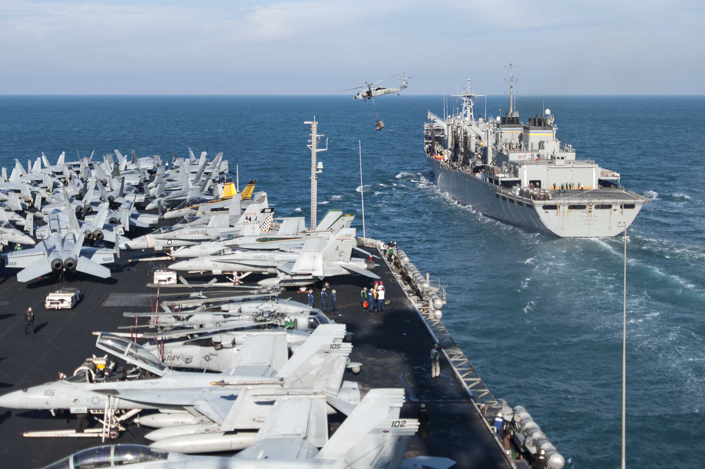 PERSIAN GULF (Jan. 15, 2014) An MH-60S Sea Hawk helicopter assigned to the Dusty Dogs of Helicopter Sea Combat Squadron (HSC) 7 transports cargo from the Military Sealift Command fast combat support ship USNS Arctic (T-AOE 8) to the aircraft carrier USS Harry S. Truman (CVN 75) during a replenishment-at-sea. Harry S. Truman, flagship for the Harry S. Truman Carrier Strike Group, is deployed to the U.S. 5th Fleet area of responsibility conducting maritime security operations, supporting theater security cooperation efforts and supporting Operation Enduring Freedom. (U.S. Navy photo by Mass Communication Specialist 3rd Class Karl Anderson/Released) 140115-N-ZG705-147 Join the conversation navylive.dodlive.mil